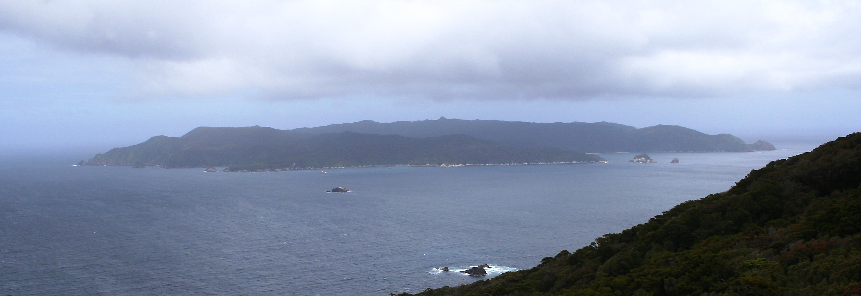 Codfish Island (Whenua Hou), New Zealand, home to around half the world's remaining kakapo (Strigops habroptila).